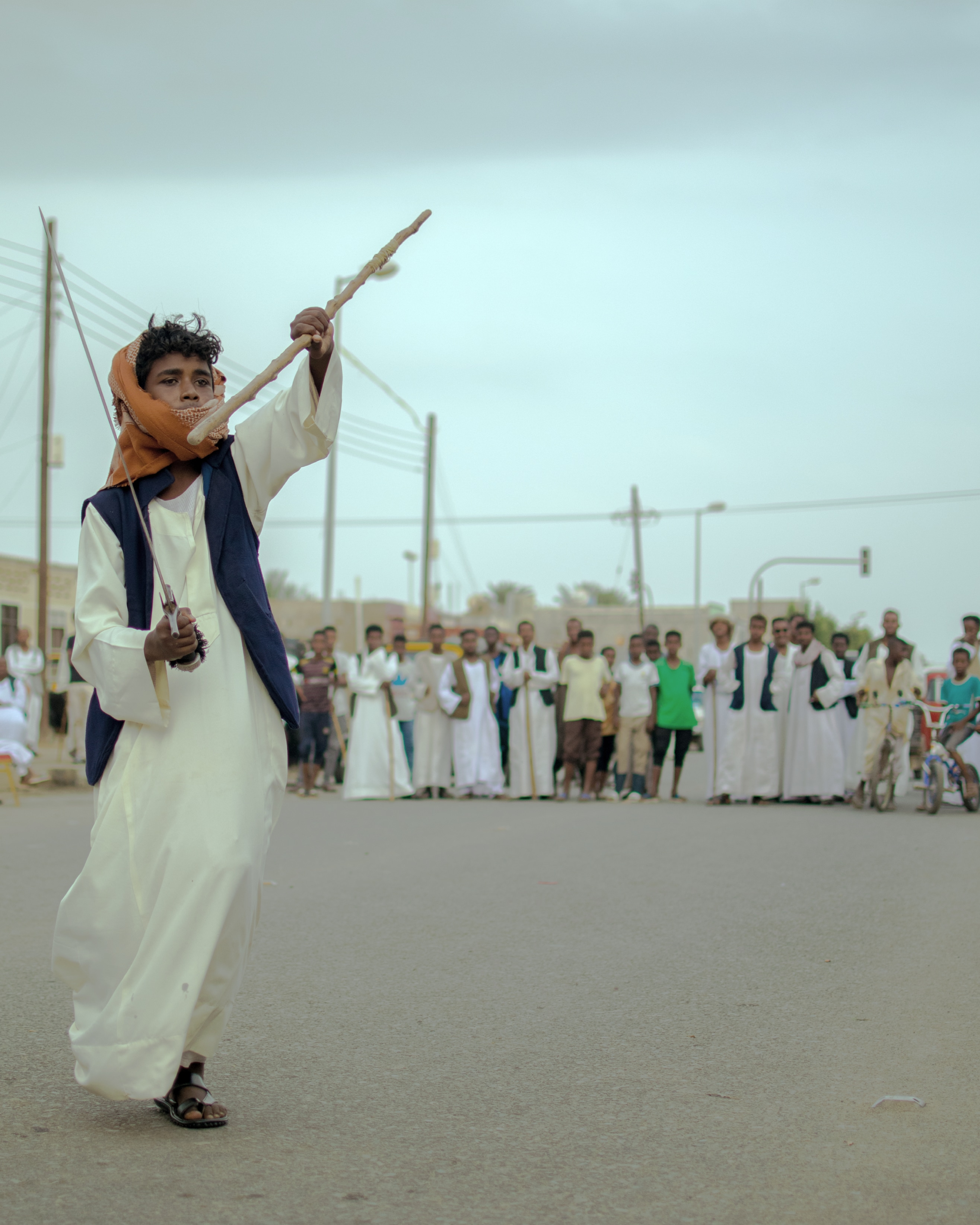 The BIJA are one of the oldest native tribes in sudan. This is an image with the theme "Play" from: Sudan